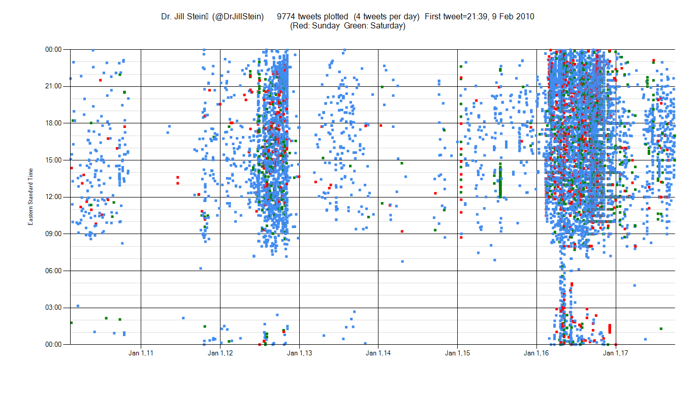 Twitter activity of Jill Stein from her first tweet in February 2010 to September 2017